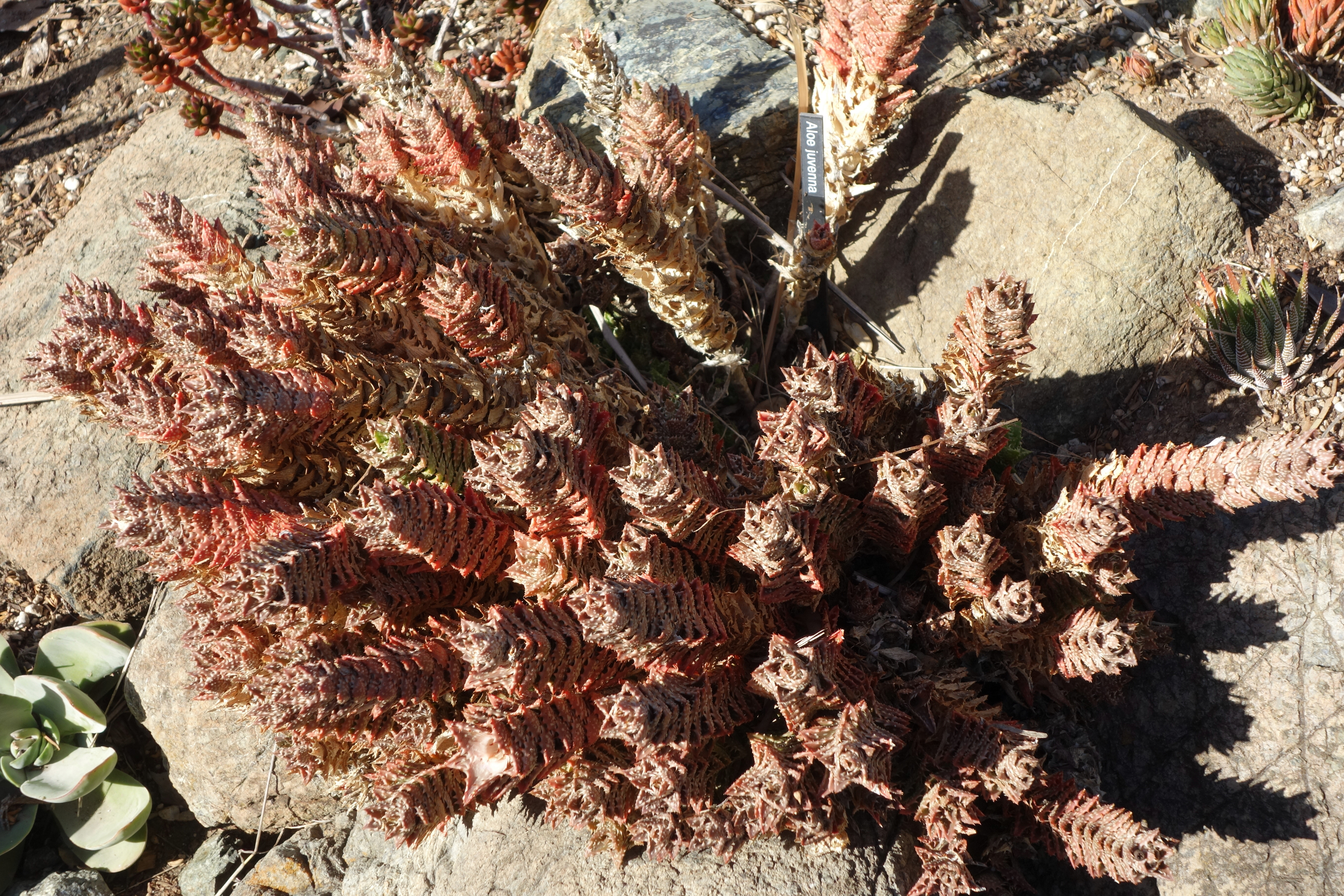 Botanical specimen in Leaning Pine Arboretum, California Polytechnic State University, San Luis Obispo, California, USA.